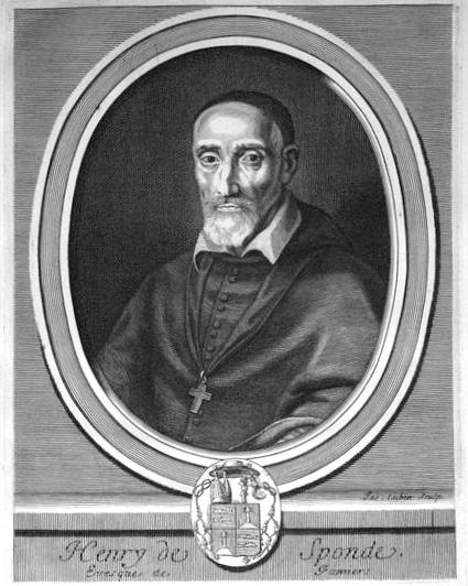 Portrait of Henri de Sponde, Bishop of Pamiers (1626-1641)